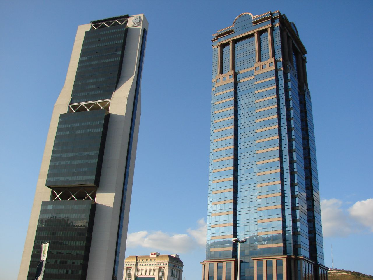 CNCI and CA Buildings in Monterrey México.